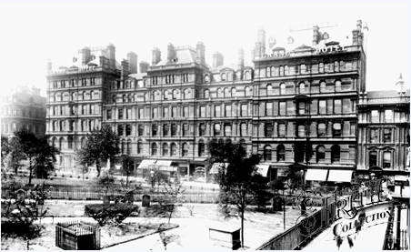 The Grand Midland Hotel, Colmore Row, Birmingham